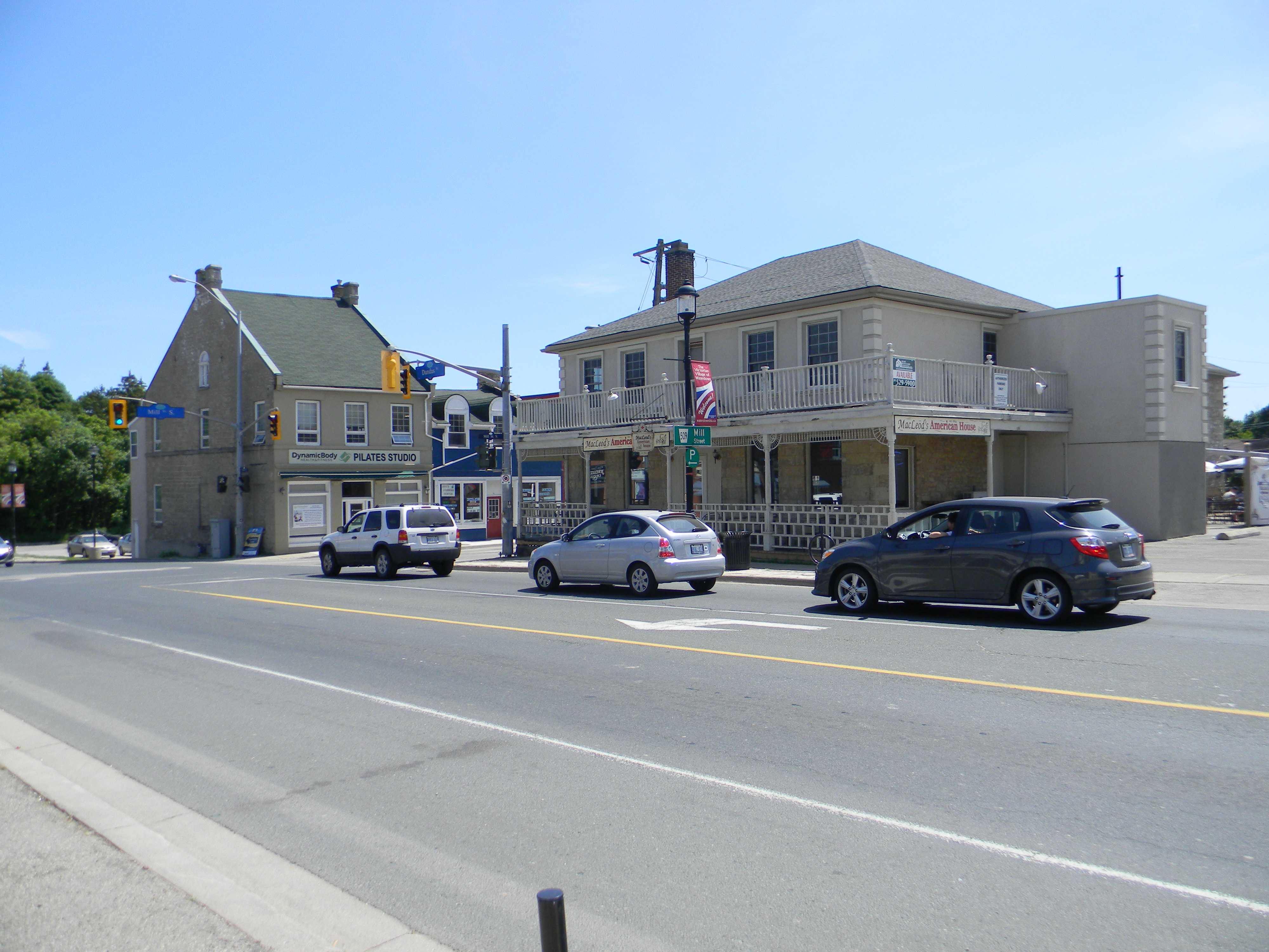 Waterdown's Corner of Dundas and Mill Street - American House